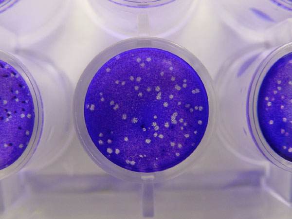 Macroscopic photograph of viral plaque formation. Vero cells, which grew confluently on the bottom of the plastic plate (1.5 cm diameter), were infected with 'herpès simplex virus (approximately 75 plaque forming unit), and then cultured over night to make viral plaque. Living cells were stained with crystal violet. The viral plaques, each was from one virion, remained transparent